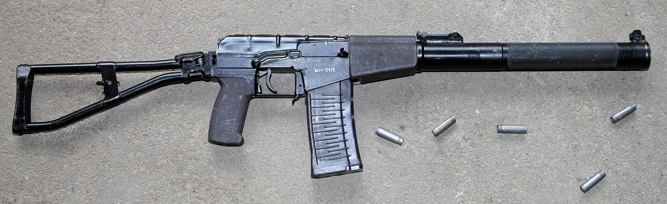 AS VAL, right view with unfolded buttstock.